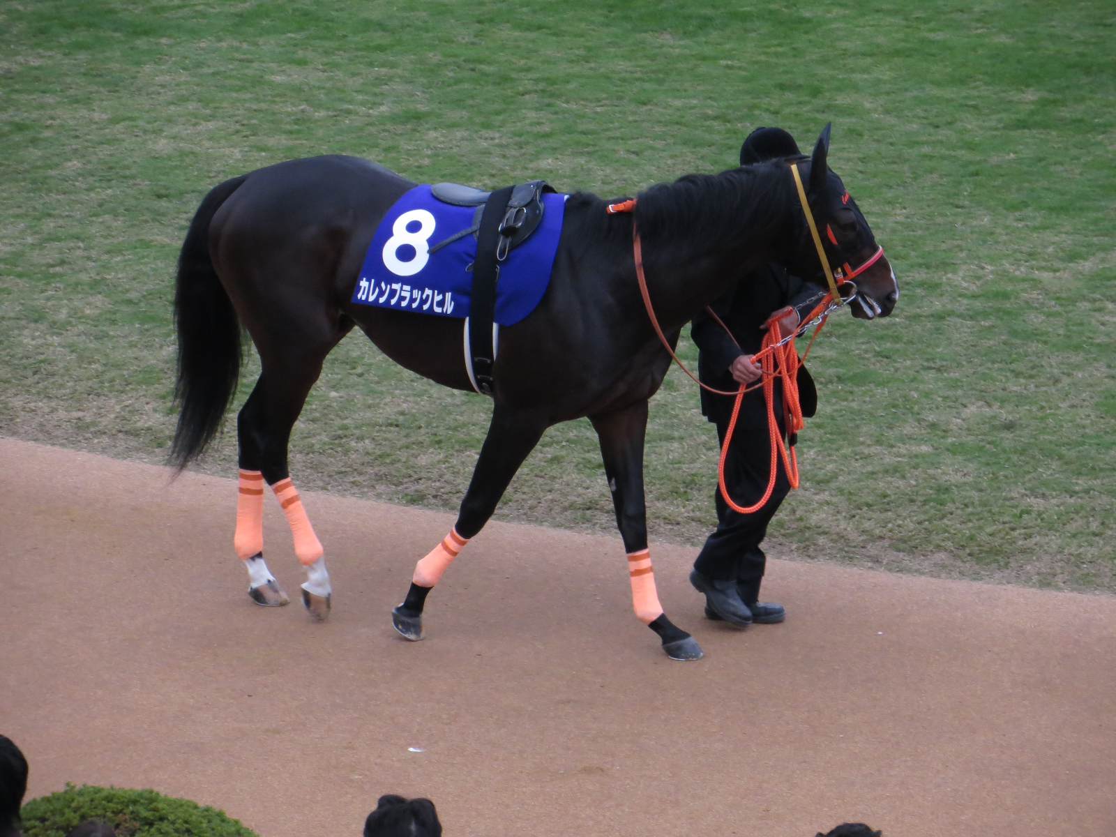 Curren Black Hill (Racehorse of Japan)